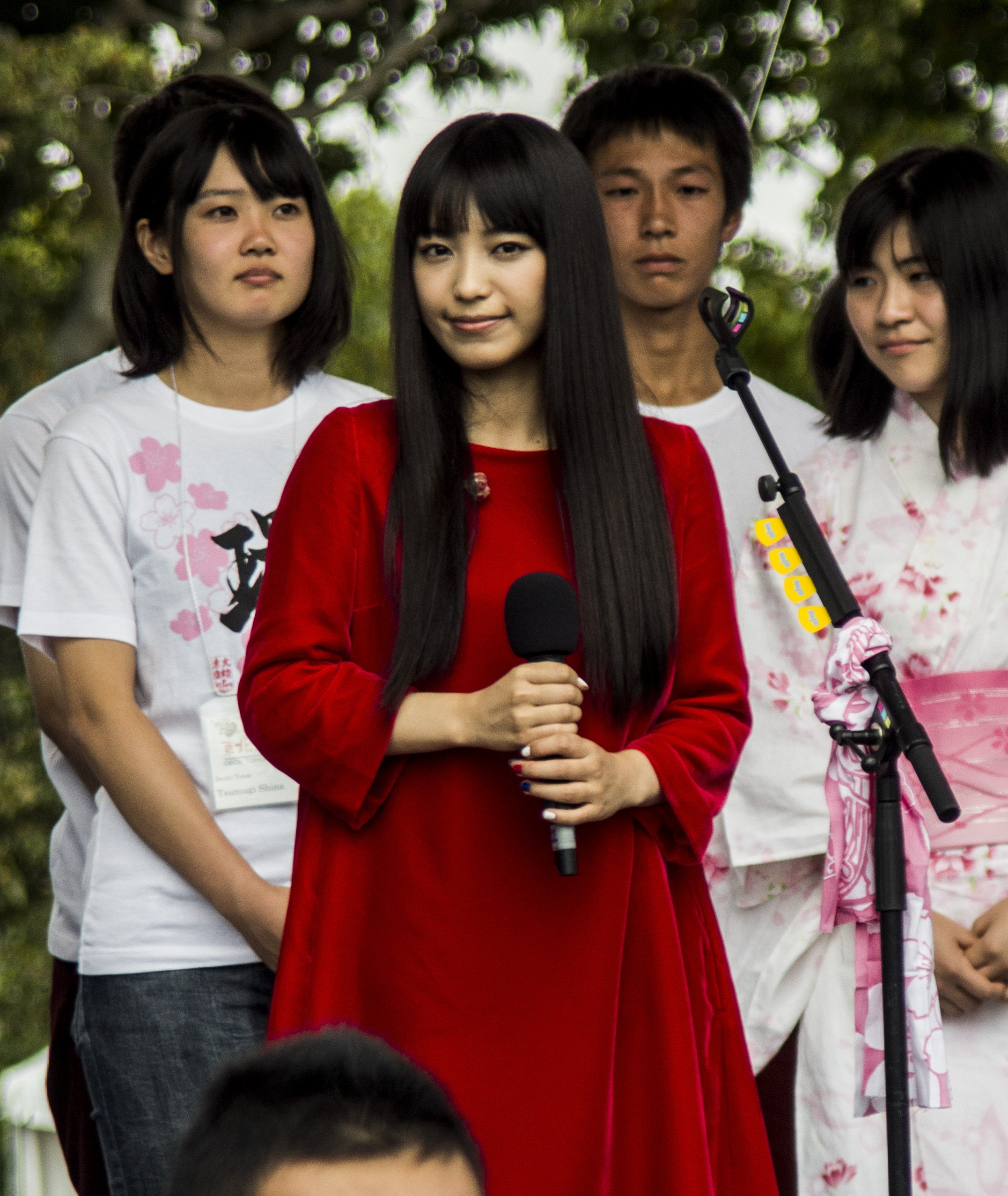 Miwa performing with students at the Tohoku wa La renaissance event, at Champ-de-Mars in Paris (cropped from original).